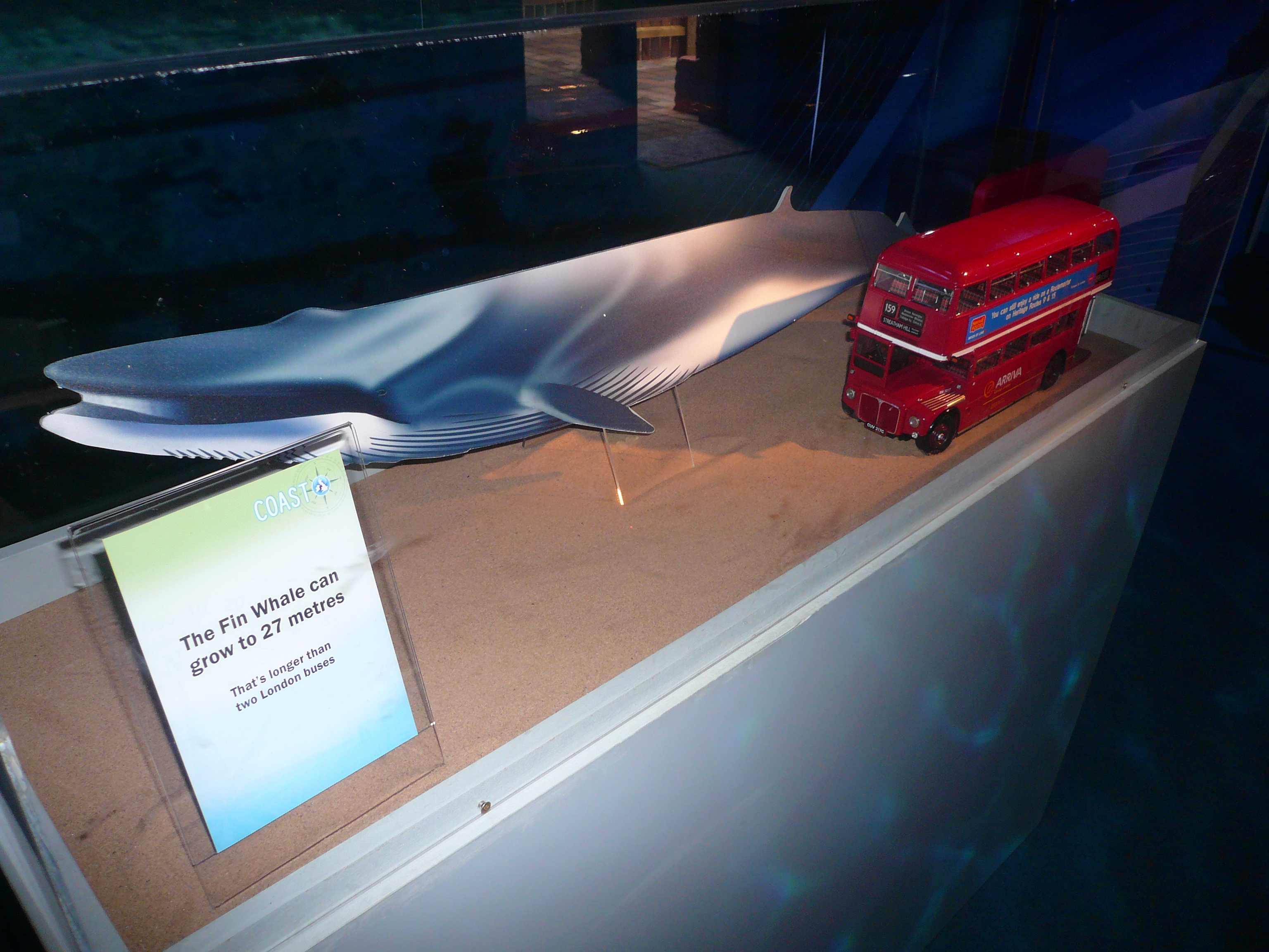 A model Routemaster bus owned by Arriva London next to a fin whale to give a size comparison. It is part of an exhibit at Blackgang Chine, an amusement park on the Isle of Wight.